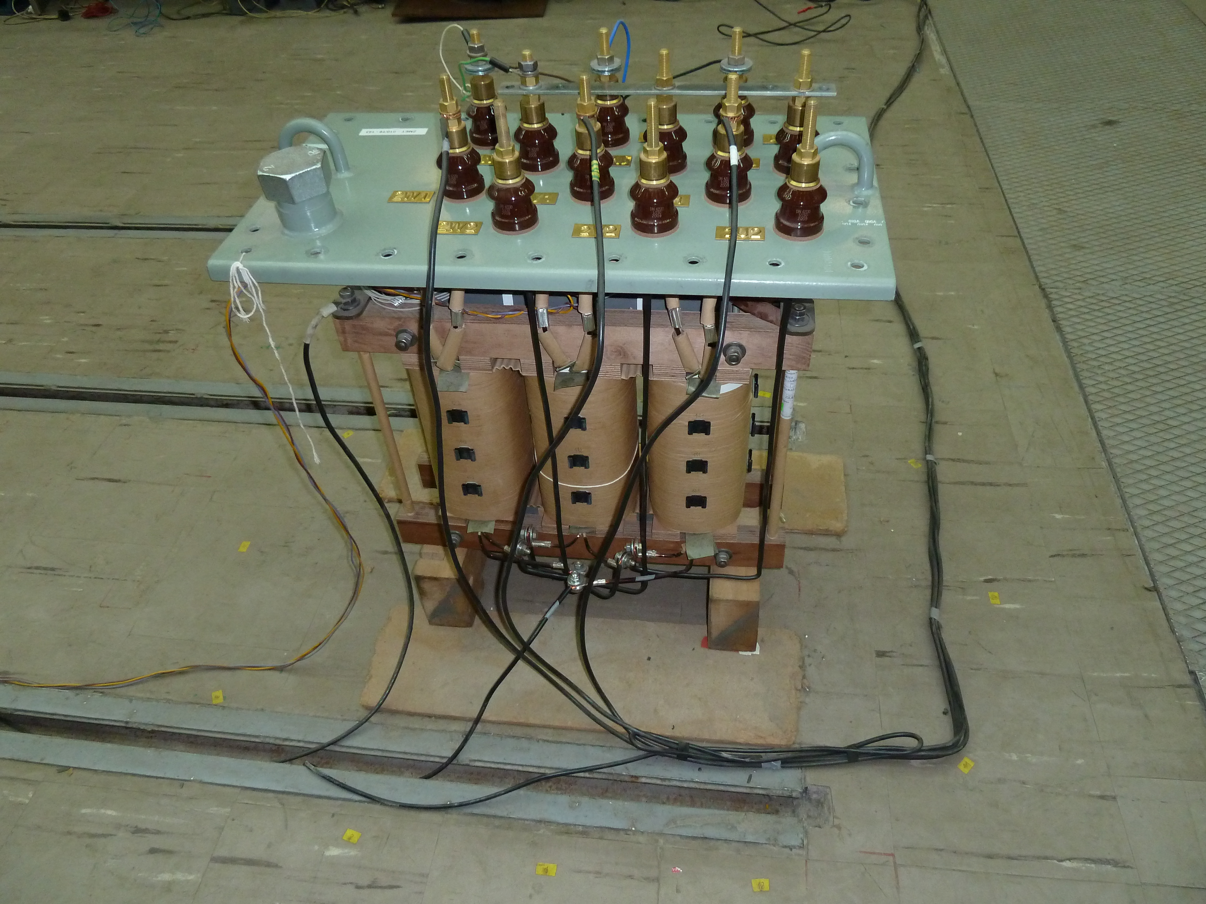 trafokm